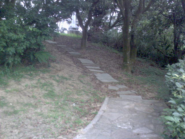 Taiwan acacia path of Chung Hua University